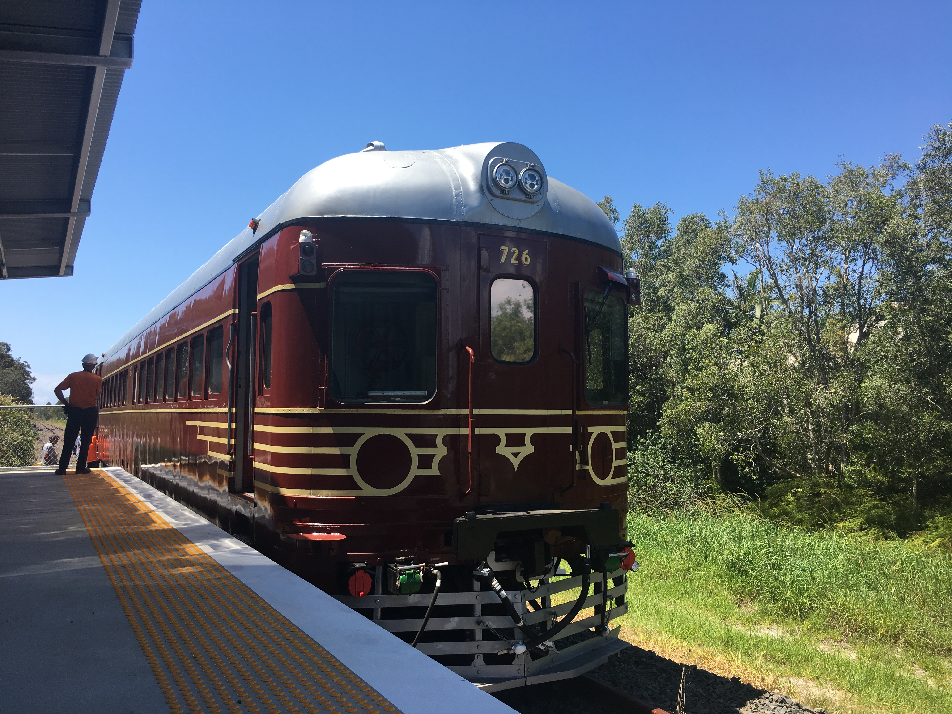 The new solar powered railmotors delivered on 3/11/17 for use on a restored section of the Murwillumbah Branch in Byron Bay, NSW Australia. Photo by Wayne Brown